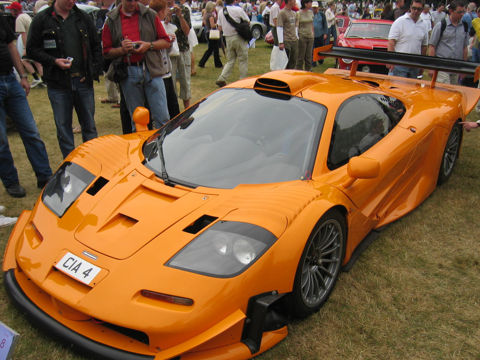 A McLaren F1 GTR without its race livery photographed at the 2005 Goodwood Festival of Speed